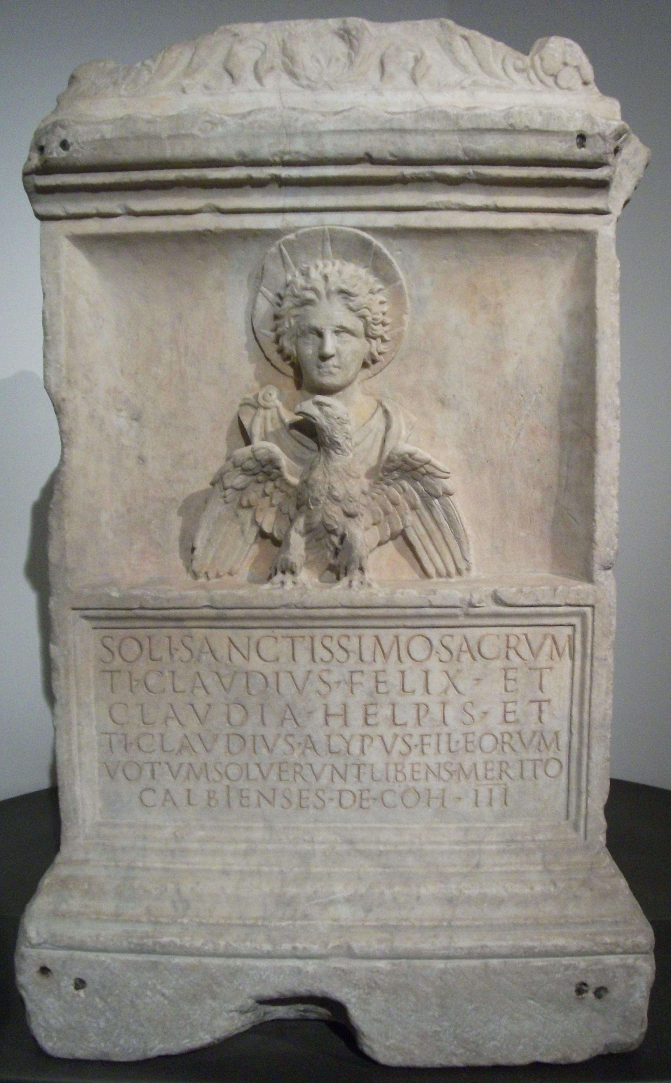 Musei Capitolini